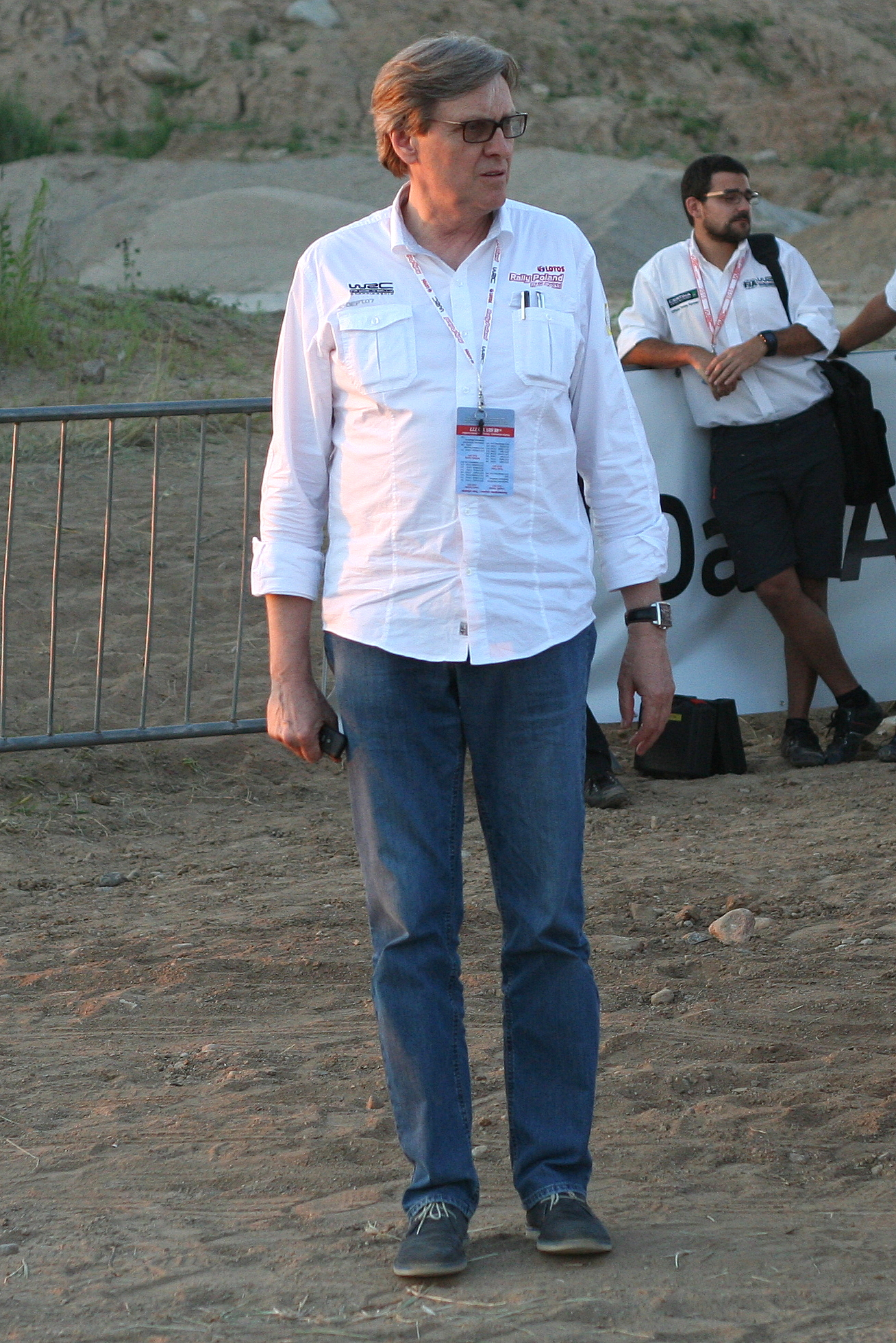 Polish journalist Andrzej Borowczyk, Polish Rally 2015.